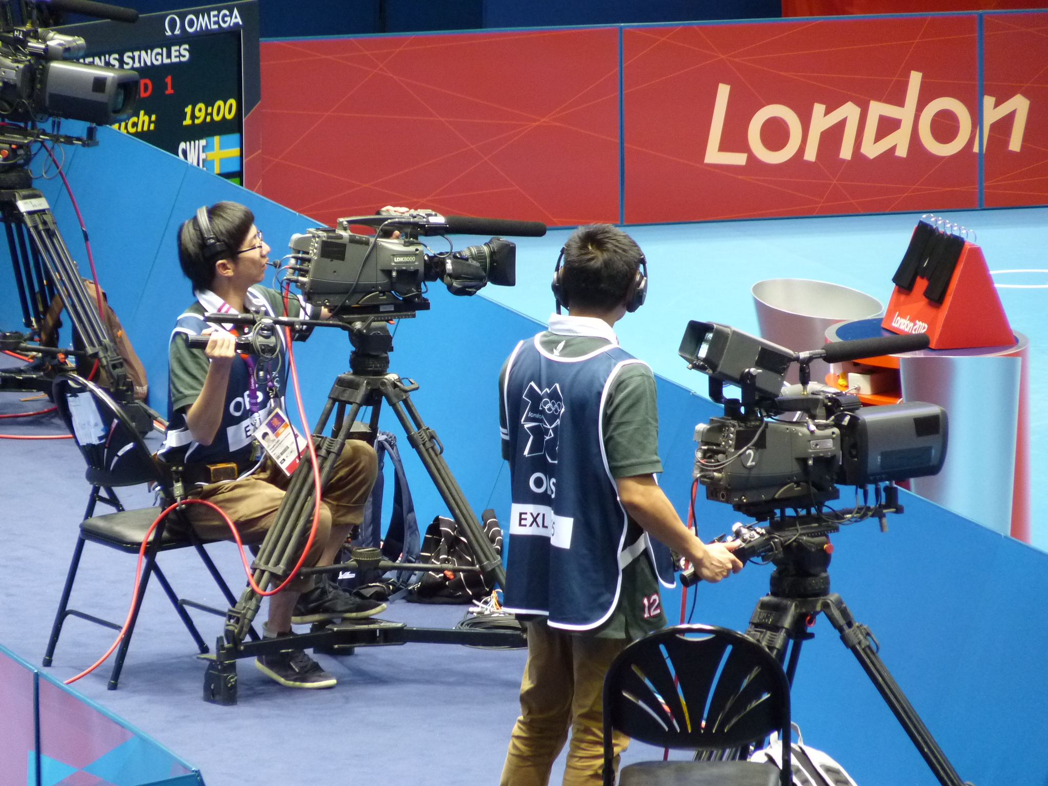 OBS camera team filming 1st round of men's table tennis, ExCel arena, London Olympics, 28 July 2012